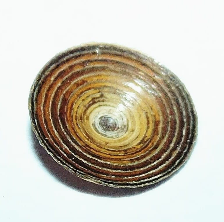 Corneal operculum of the western Atlantic mollusc Tegula viridula (Gmelin, 1791)[1] taken in Ubatuba, São Paulo, Brazil.